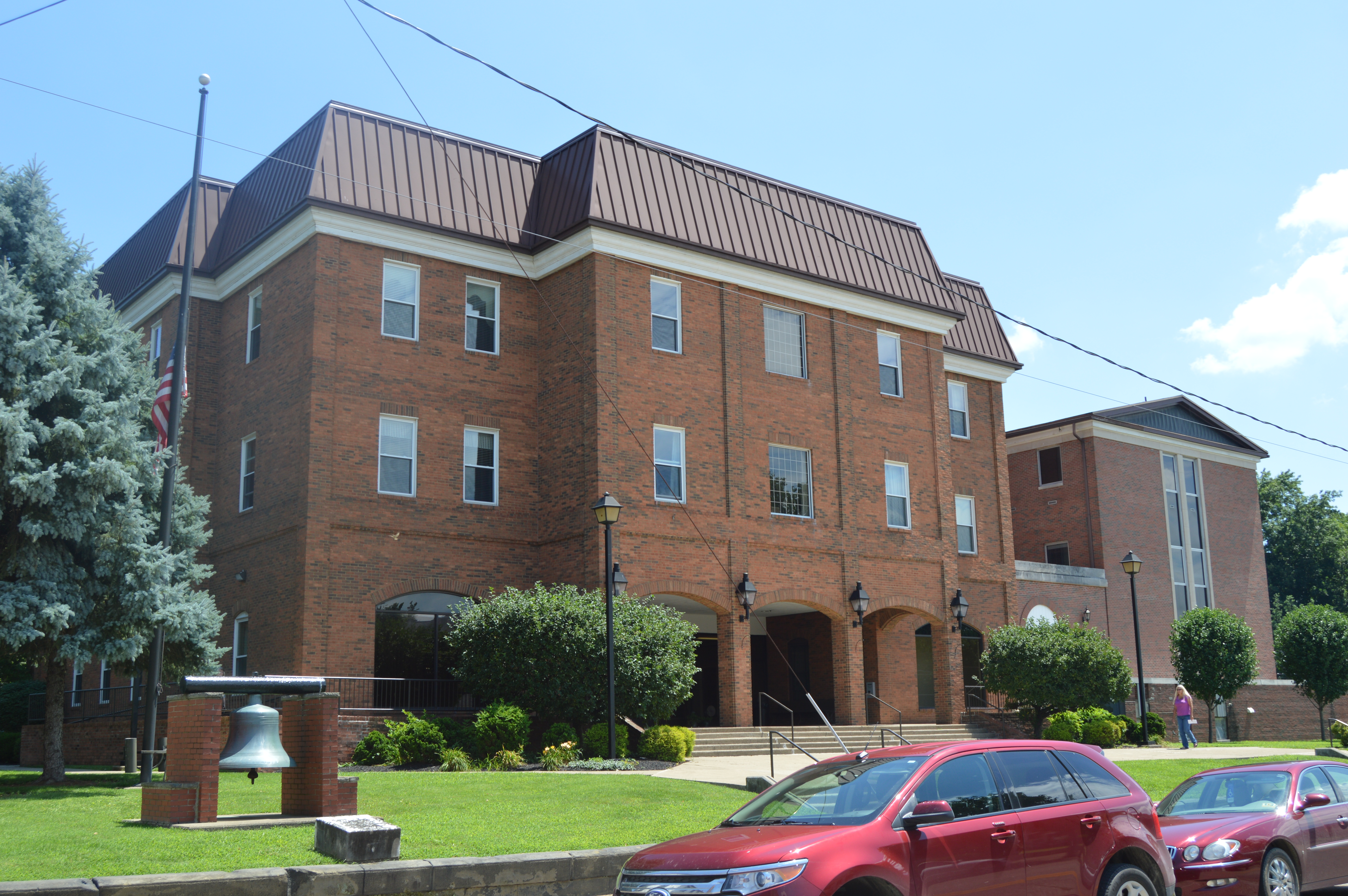 Front and southeastern end of the Gallia County Courthouse, located at 18 Locust Street in Gallipolis, Ohio, United States. Built in 1985, it is the county's fifth courthouse; the first was demolished by the county government, while the second, third, and fourth were all destroyed by fire.